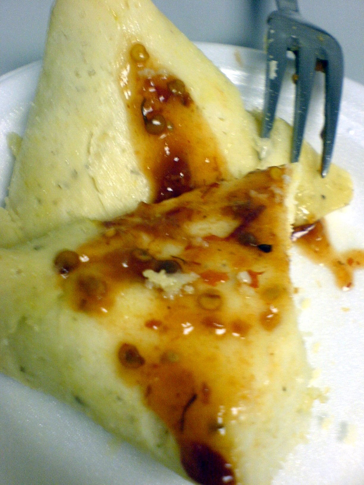 A Mexican food - steamed masa (maize)